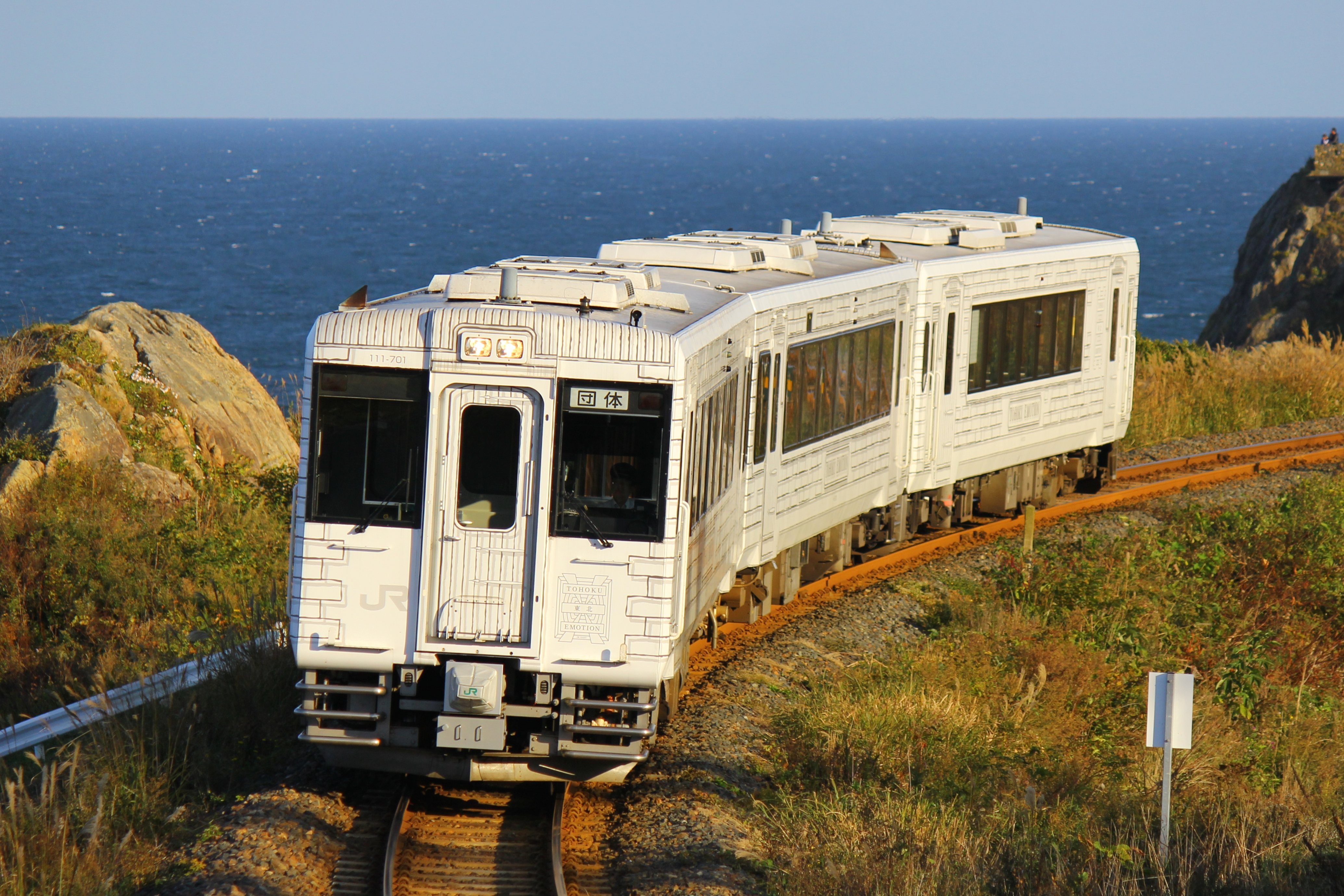 The JR East KiHa 1100 series "Tohoku Emotion" excursion DMU set